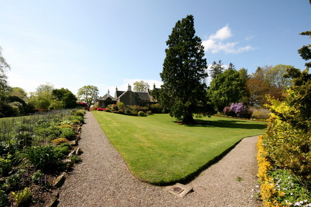 Rear view of Geilston House and Gardens at spring time